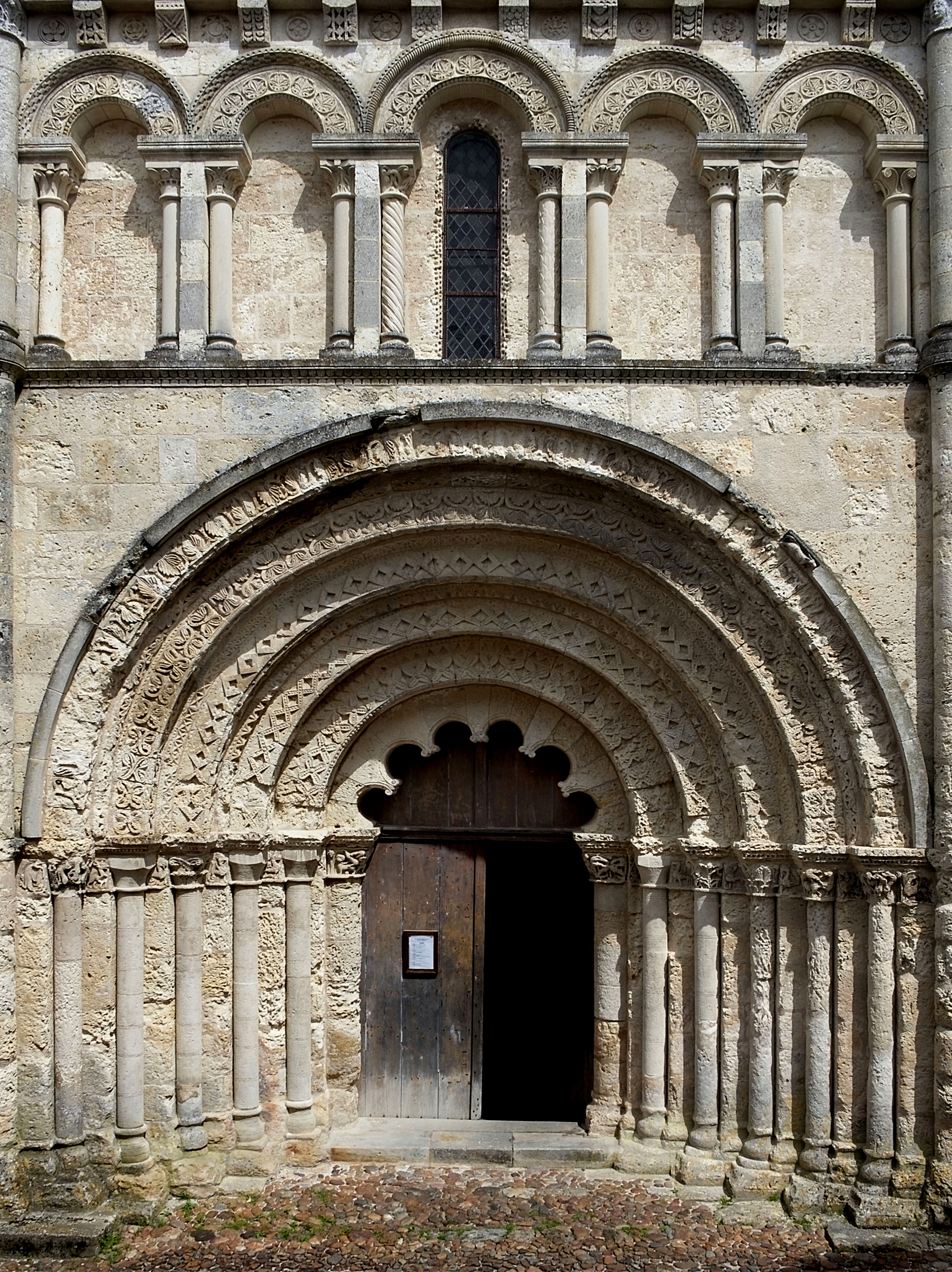 Portal, typanum and arches of the façade. Romanesque church Saint-Jacques (XIIth century) Aubeterre-sur-Dronne, Charente, France.